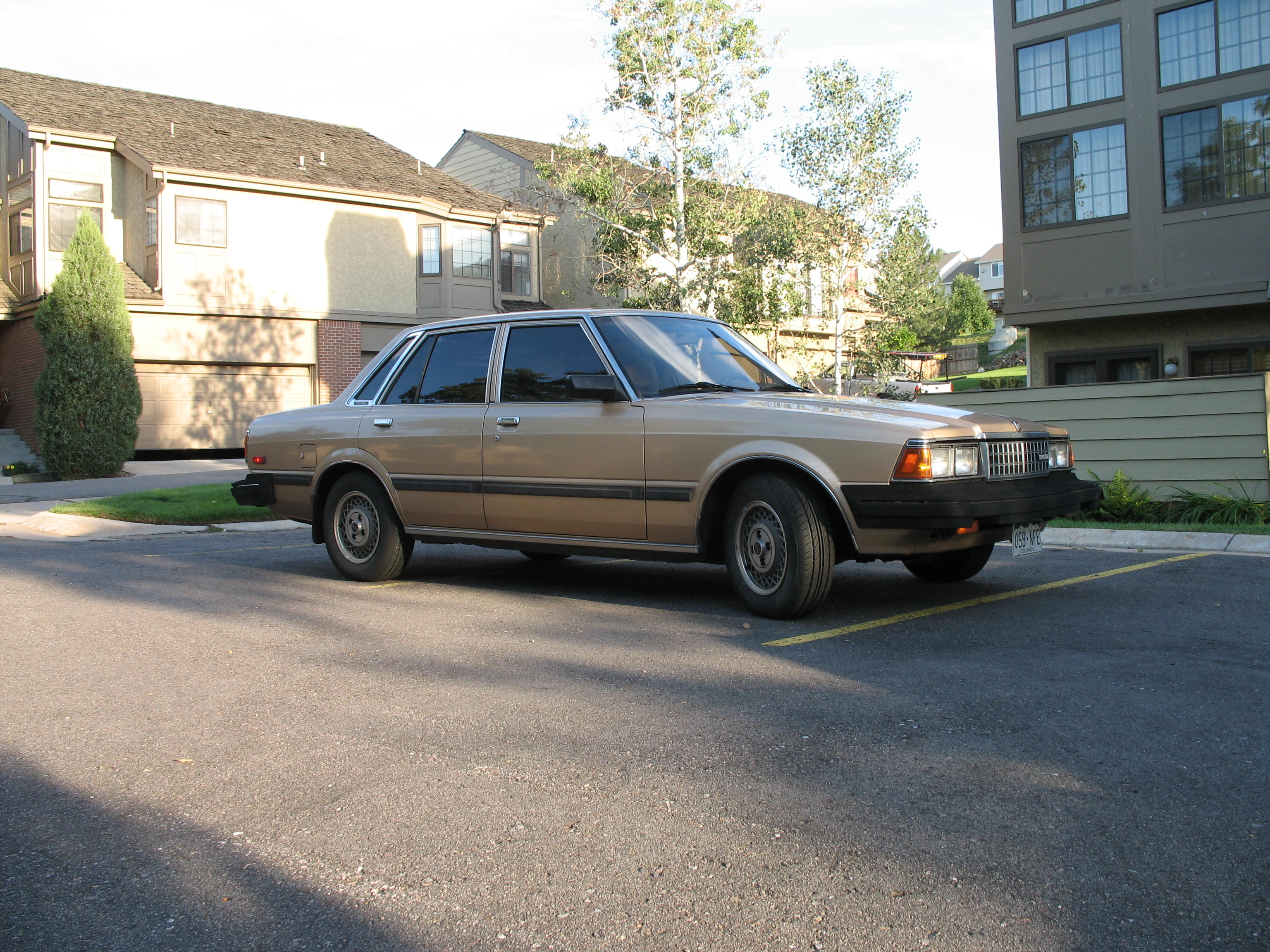 1984 Toyota Cressida sedan. Taken 8/2007 in Littleton, Colorado.